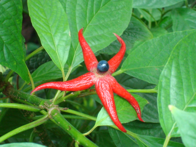 Picture of Clerodendrum minahassae